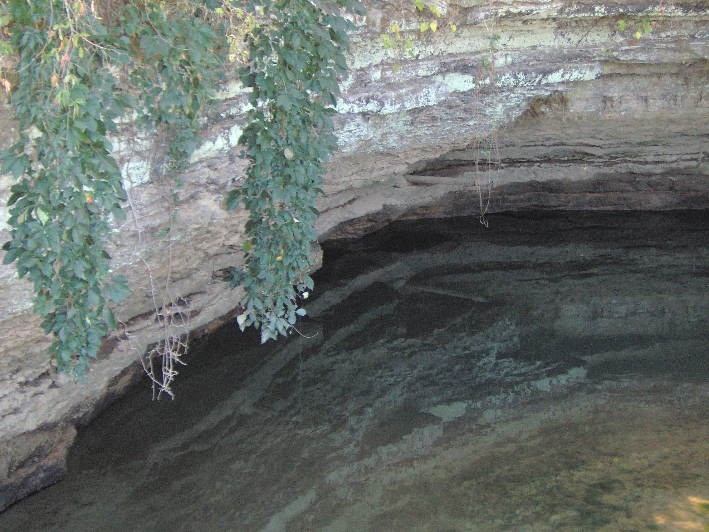 Royal Spring, the main source of water for Georgetown, Kentucky since earliest settlement as McClelland's Station in 1775.